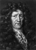 Grégoire François Du Rietz (born 1607 in Arras, France - dead 1682 in Stockholmn, Sweden) Du Rietz was a physician and was called to Sweden by Queen Christina to be her doctor. He was from a huguenot family.